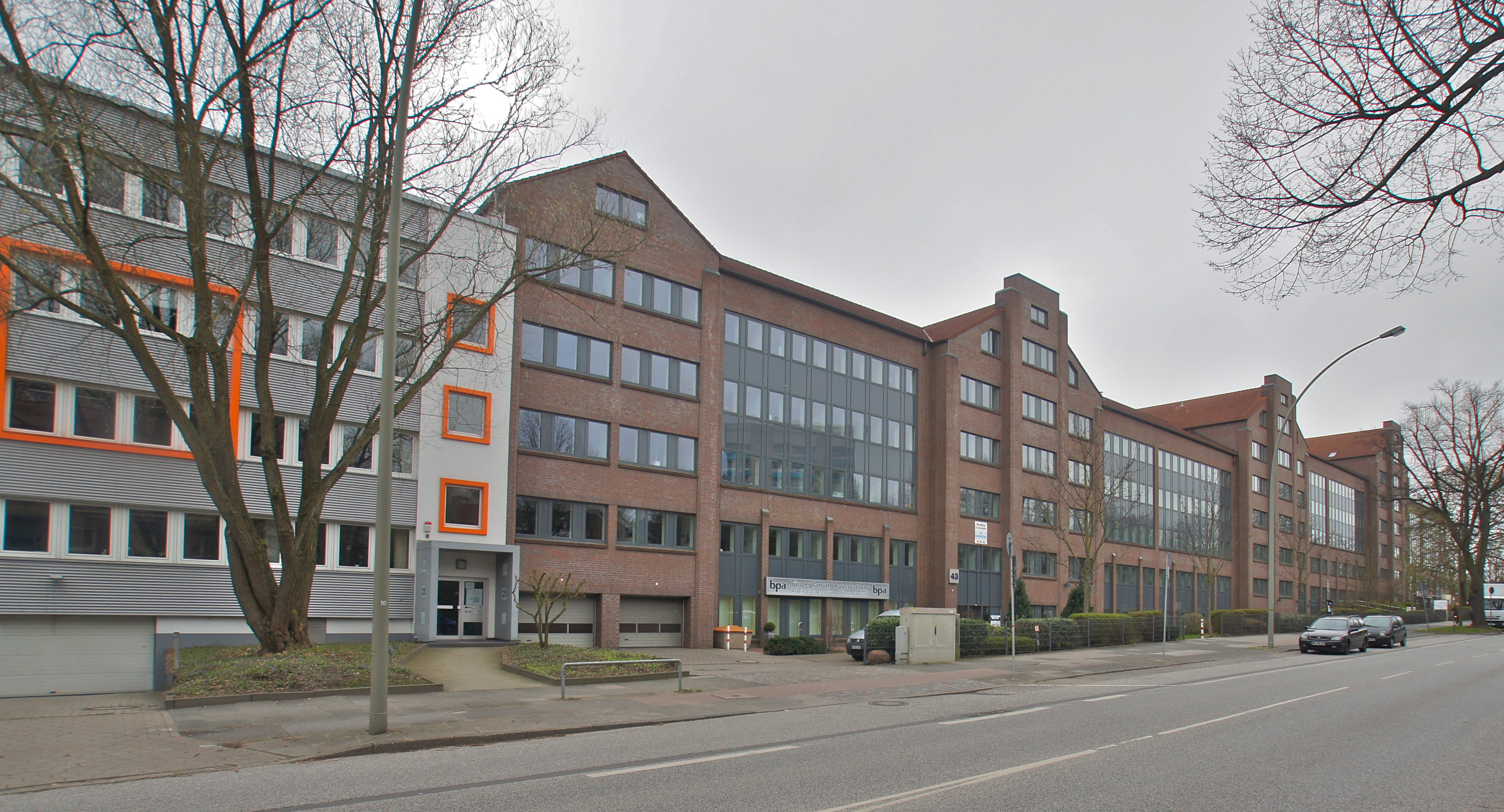 Hamburg (Groß Borstel), Germany: Office buildings at the Borsteler Chaussee